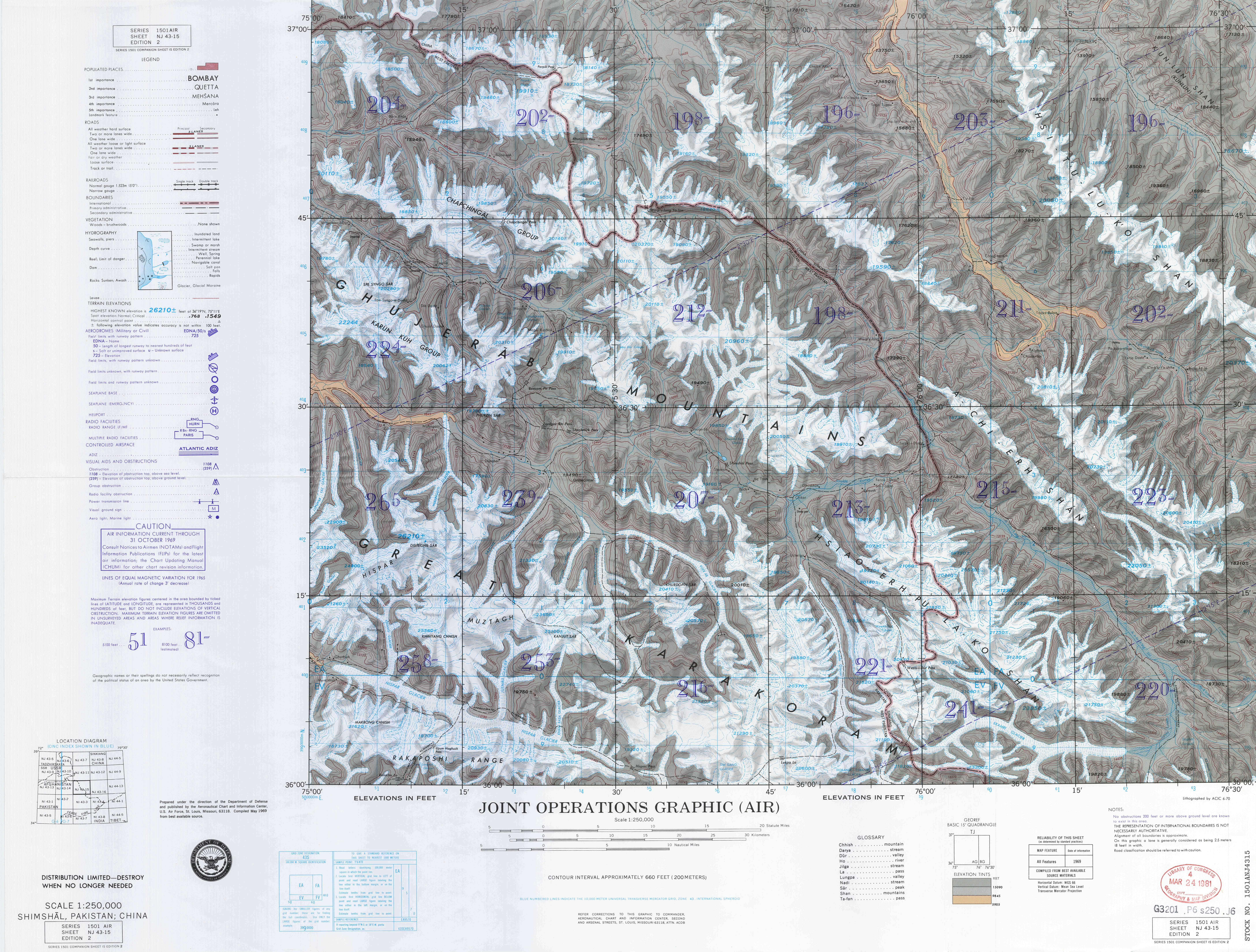 NJ-43-15 Shimshal, Pakistan